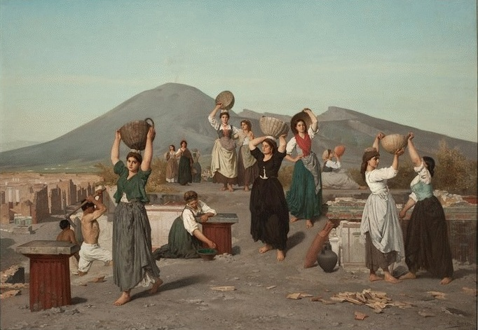 Fouilles à Pompéi (Excavations at Pompei) by Édouard Alexandre Sain. 1.2m x 1.72 m. Paris, Musee d'Orsay